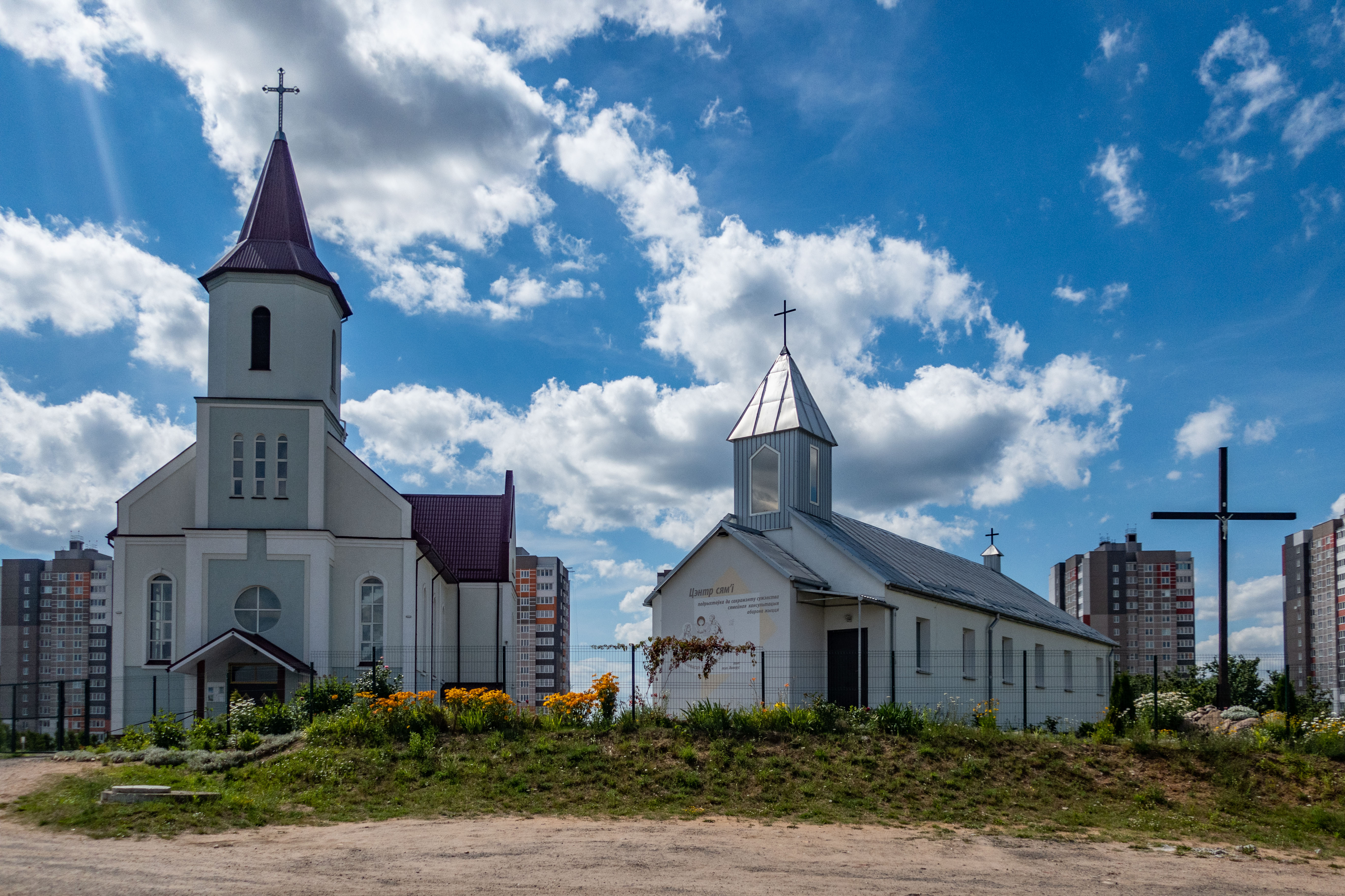 Roman Catholic Church of Our Lady of Budslaŭ. Minsk, Belarus